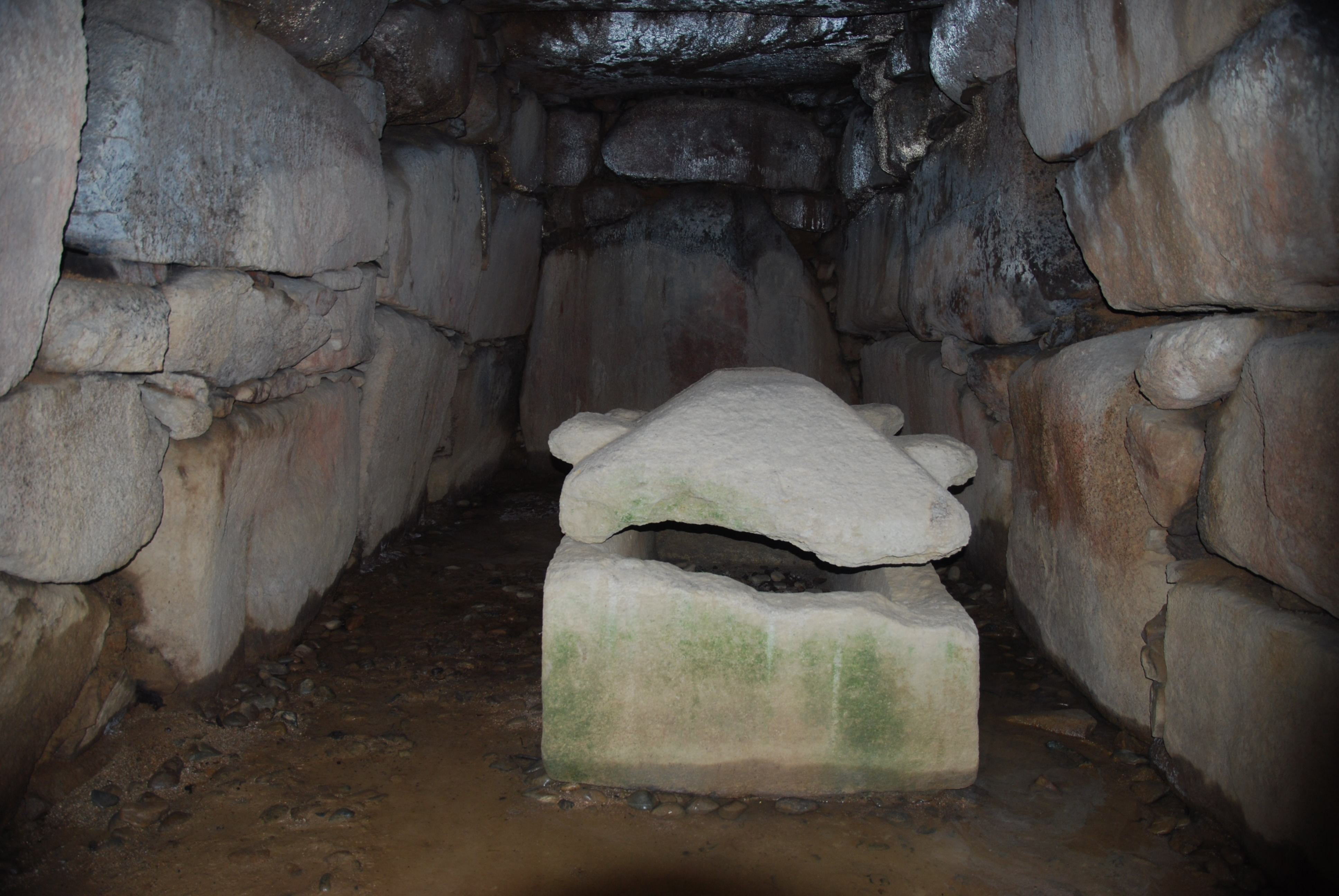 The burial chamber, Koumoridzuka Kofun